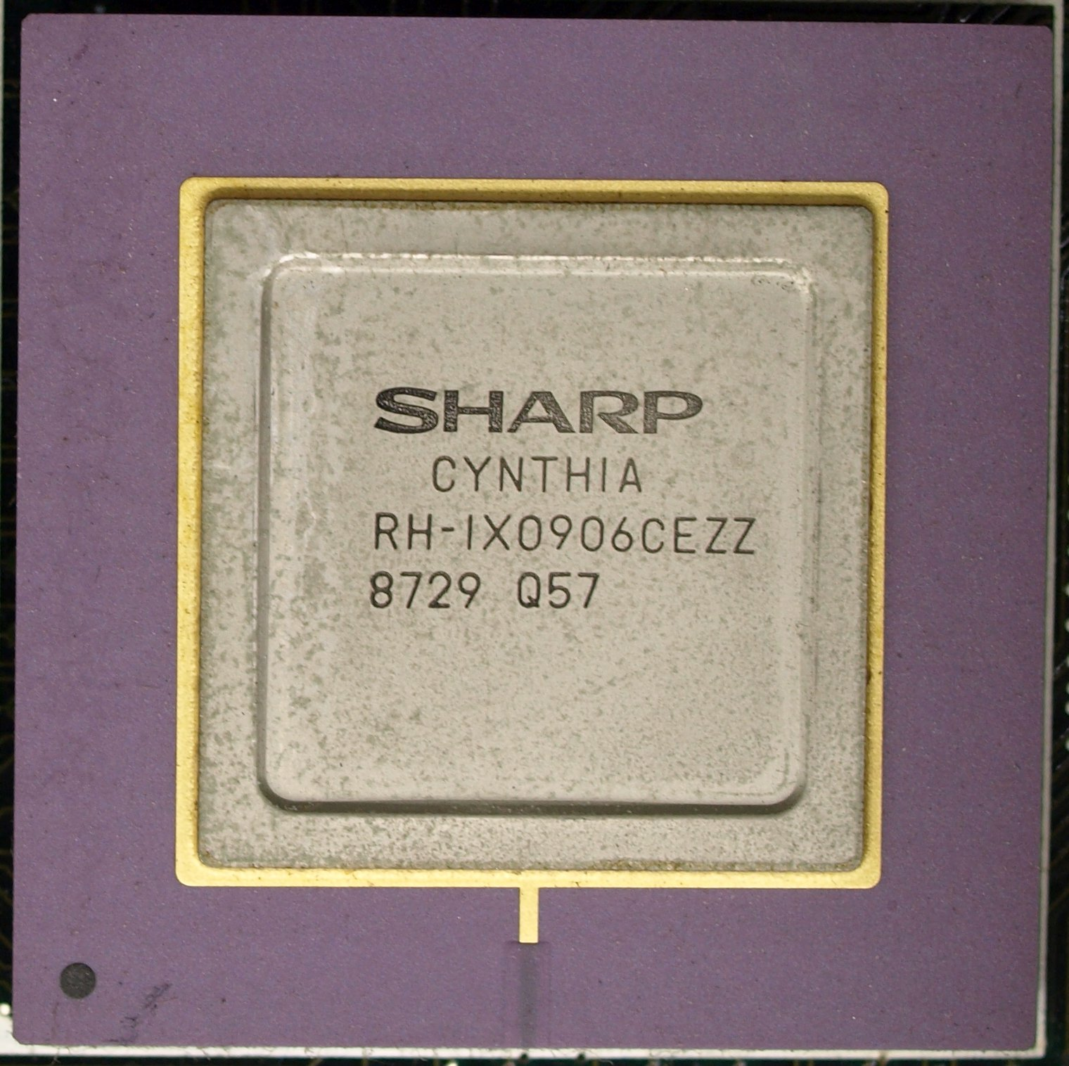 Cynthia Video Sprite Chipset in the Sharp X68000 Computer. Original 1987 CZ-600C model